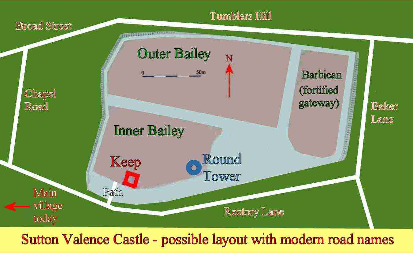 I drew this diagram based on historical research on this old castle and the modern road layout in the village today